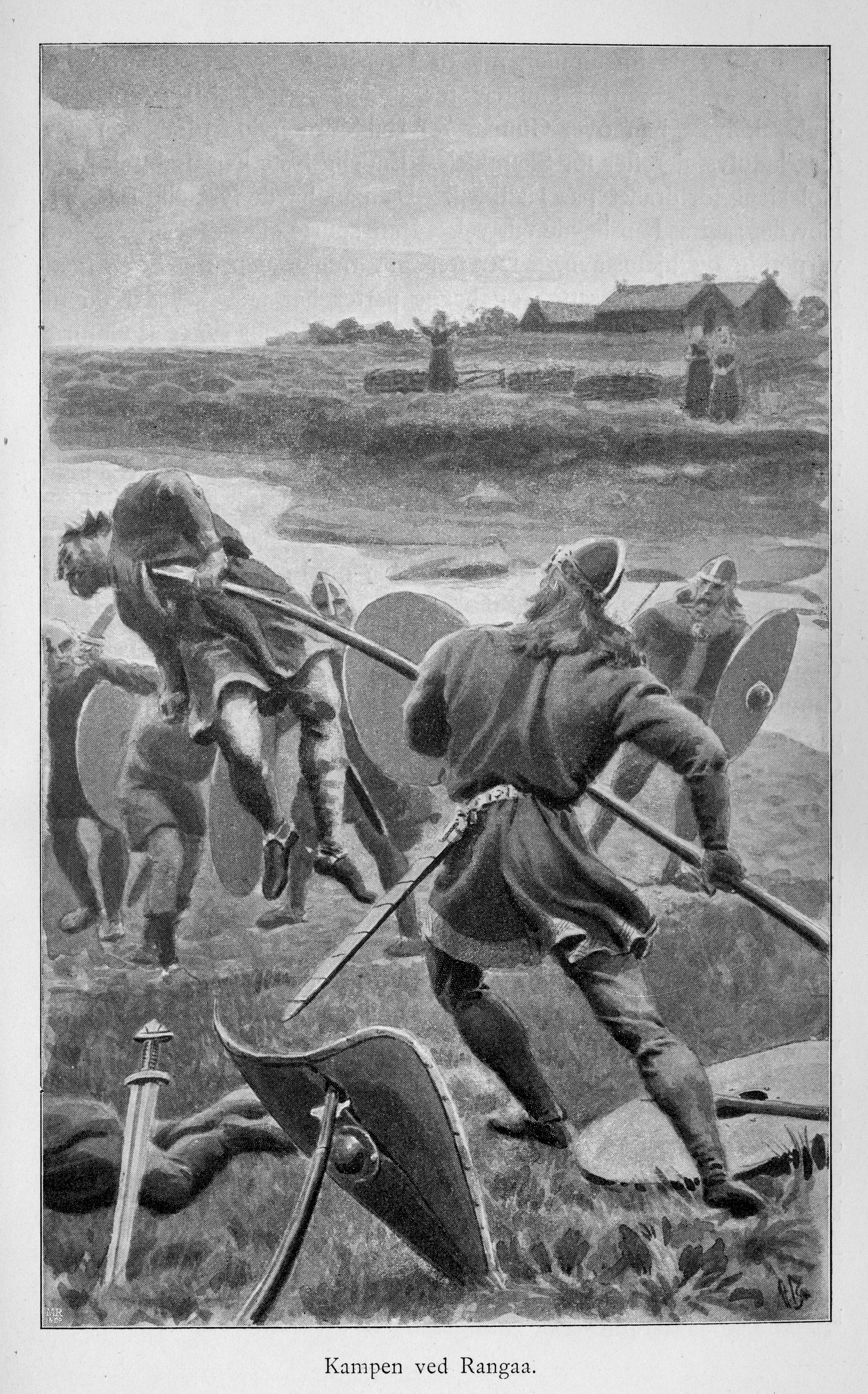 From Njáls saga: Gunnar fights his ambushers at Rangá. Illustration from "Vore fædres liv" : karakterer og skildringer fra sagatiden / samlet og udggivet af Nordahl Rolfsen ; oversættelsen ved Gerhard Gran., Kristiania: Stenersen, 1898.